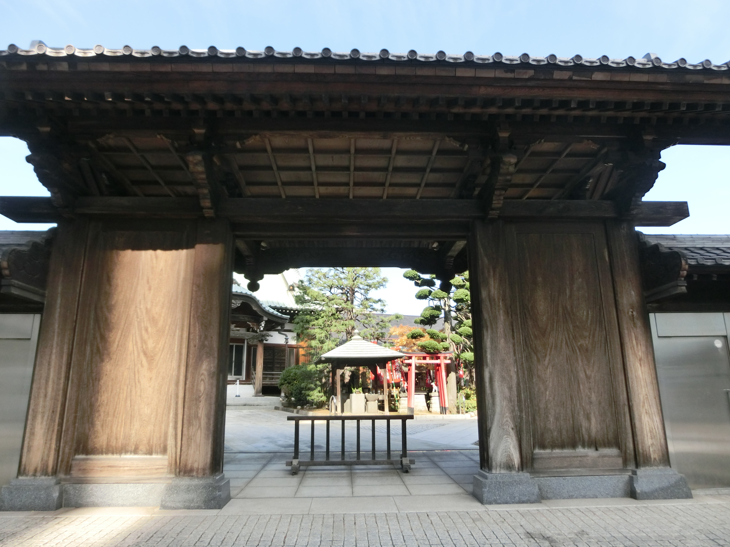 Honden-ji (Bunkyo)